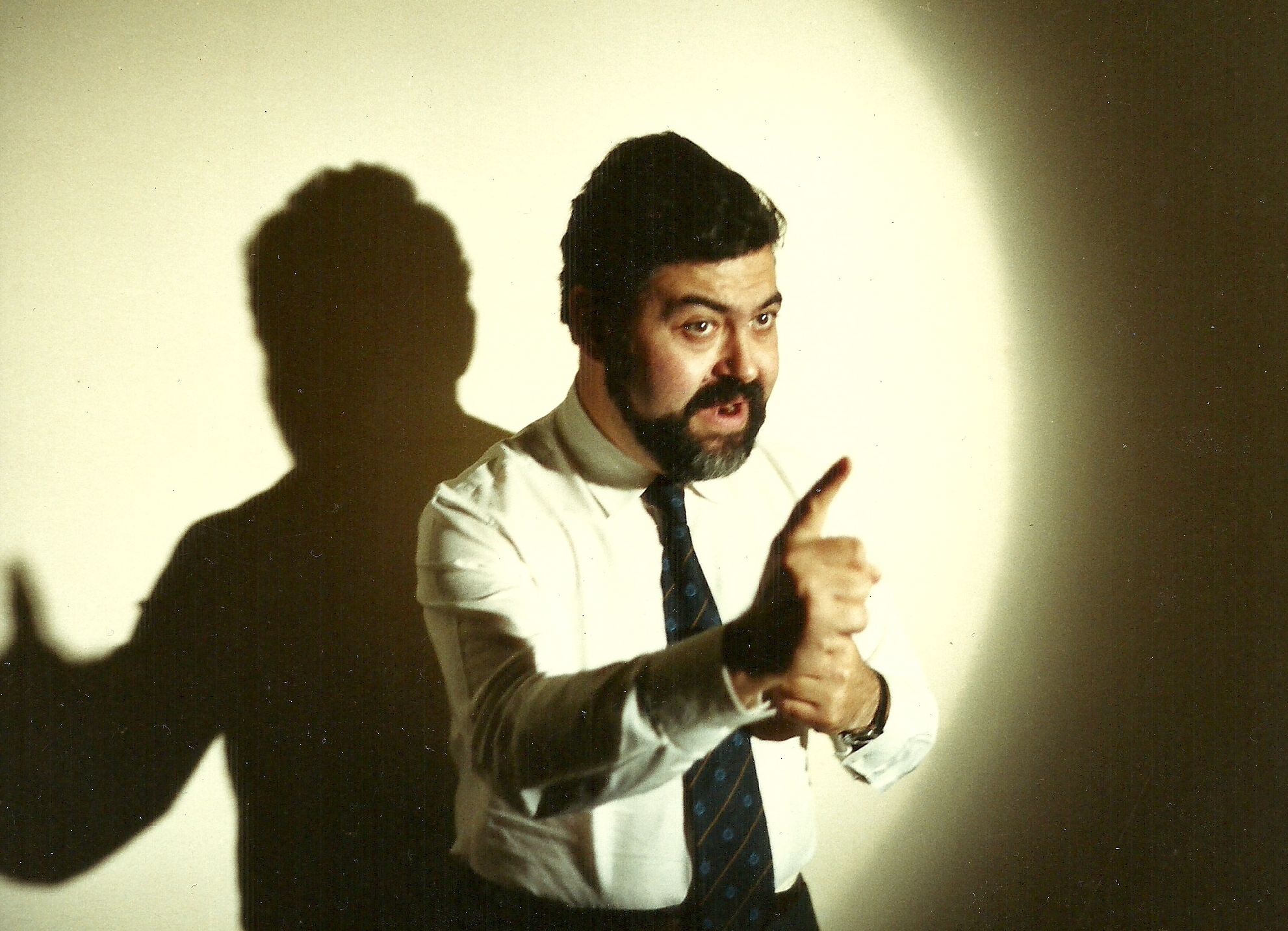 João Canto e Castro realizando uma imitação